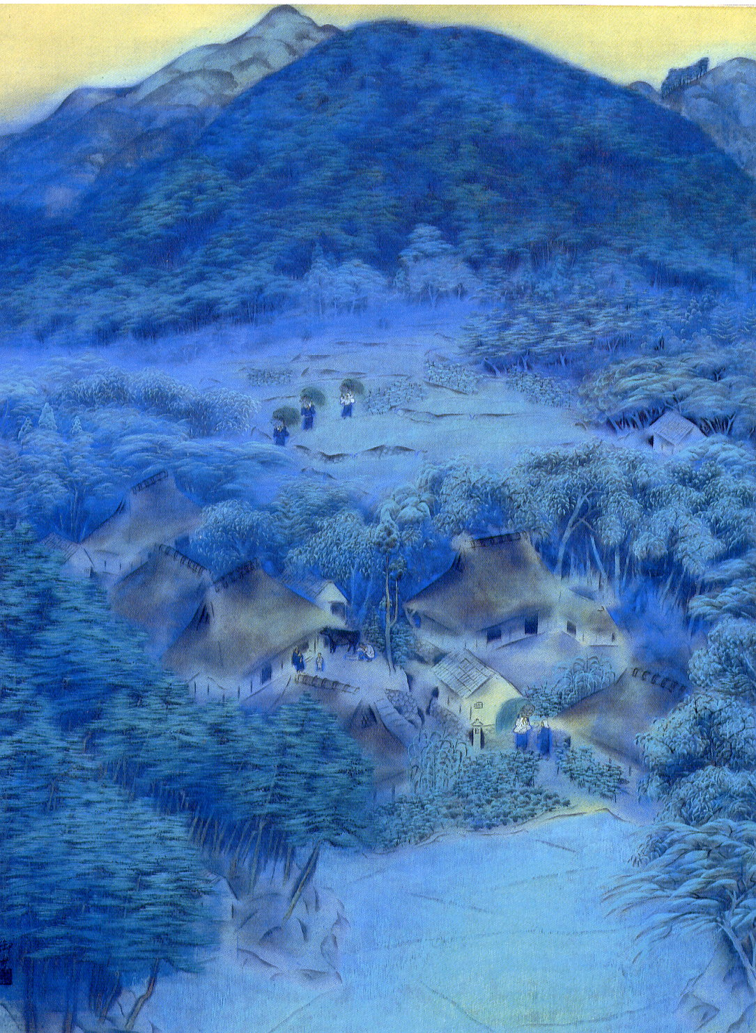 Hayami Gyoshu: Village in Shugakuin, 1918. Ink and color on silk, 132x97 cm. Shiga Museum of Modern Art.